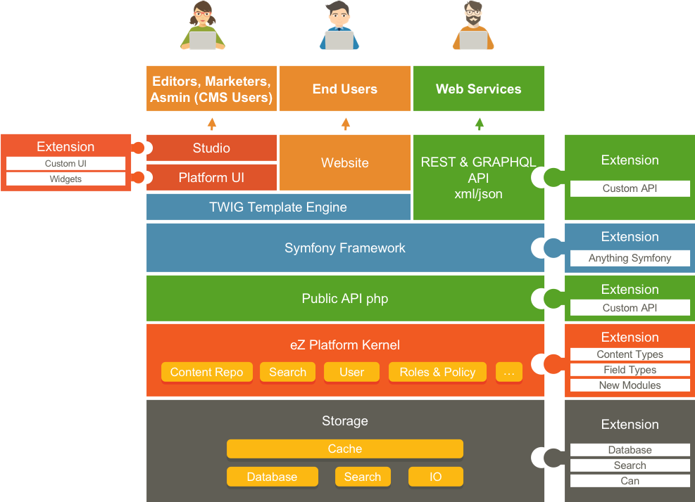 The architecture of eZ Platform is based on multiple layers, decoupled, that can all be extended. It uses the Symfony framework.